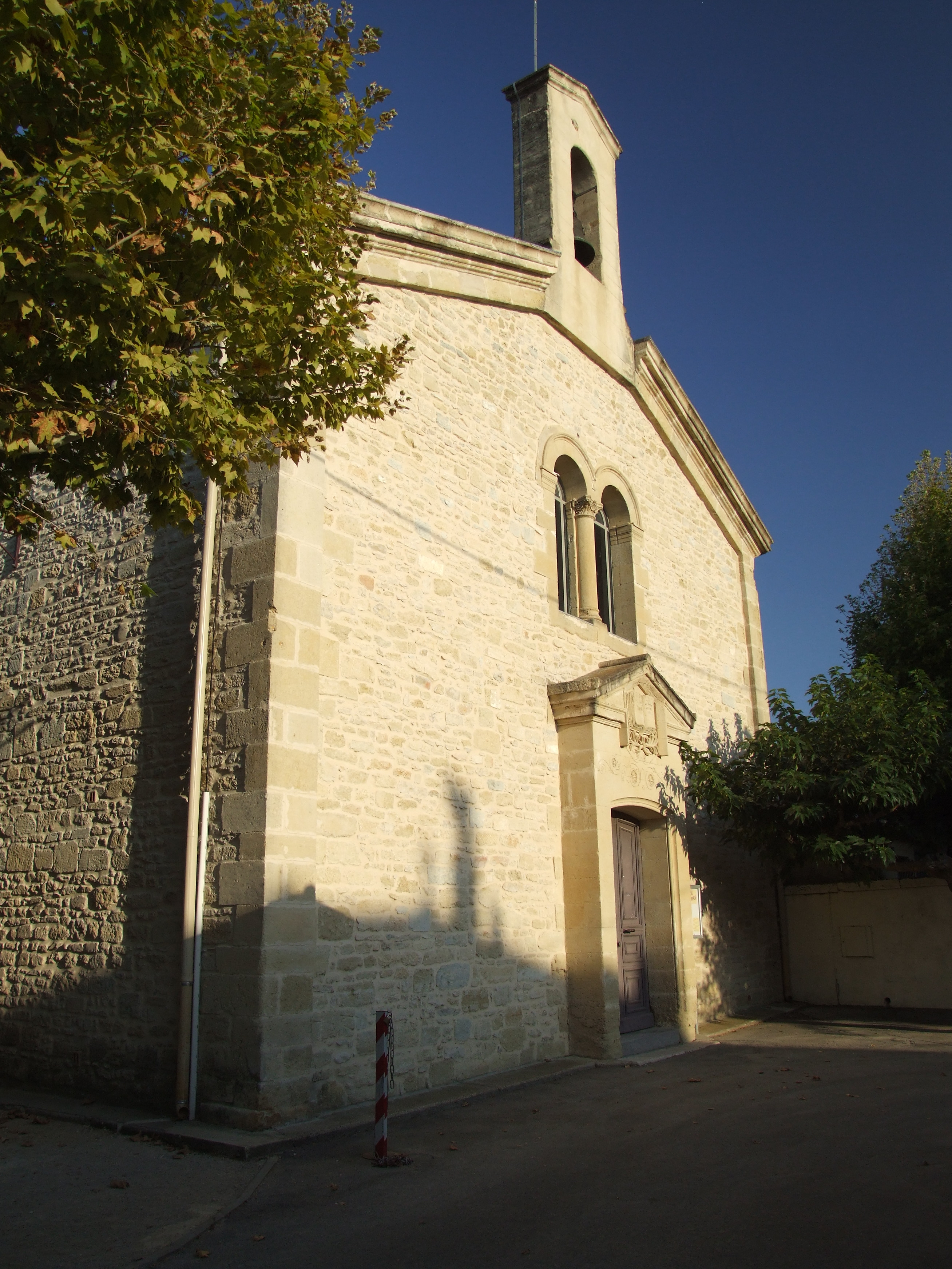 The commune of Codognan, ( post code is F30920 and INSEE 30038 is situated east of the River Rhôny, south of Vergèze in the departement of Gard. in the region Languedoc-Roussillon in southern France.